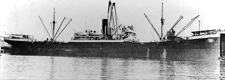 S.S. West Carnifax (American Freighter, 1918) In port, after World War I. After completion, this ship was commissioned as USS West Carnifax (ID # 3812) on 31 December 1918. She was returned to the U.S. Shipping Board on 9 May 1919. She was operated by the Export Steamship Corporation in 1927-1928. U.S. Naval Historical Center Photograph.